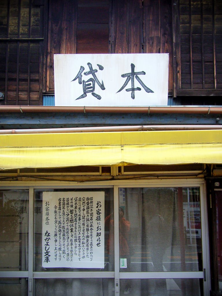 Nakayoshi Library, a former rental bookshop in Bunkyō, Tokyo, Japan.